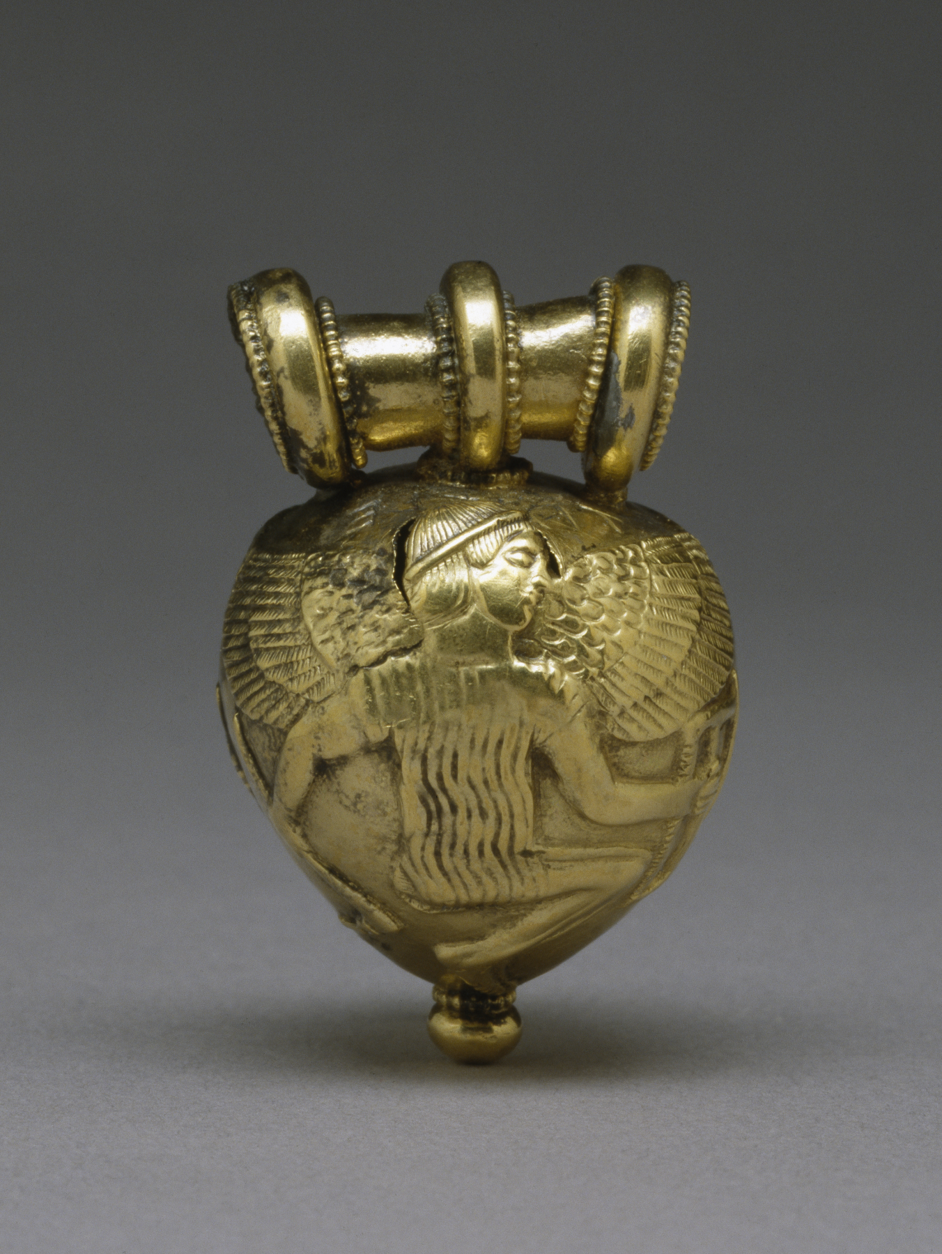 A "bulla" is a hollow pendant, that could hold perfume or a charm. Found inside this one was "labdanum", a substance used in perfume. Depicted are the mythical craftsman Daedalus and his son, Icarus (on the back). To escape captivity, Daedalus fabricated wings for himself and his son, but Icarus flew too close to the sun, and when the heat melted the wax that held his wings together, he fell to his death.